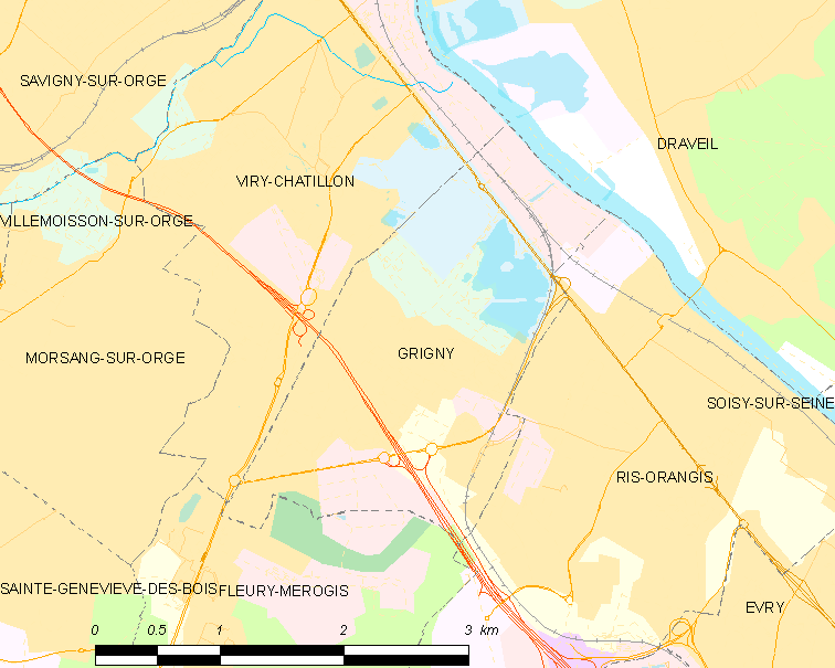 Map of French municipality Grigny